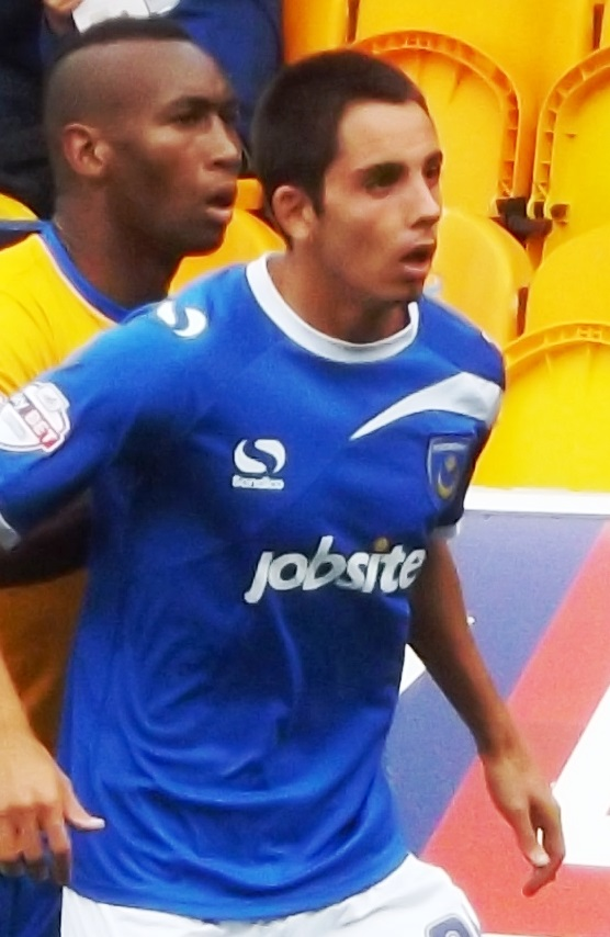 Romain Padovani. Image cropped from original at flickr.